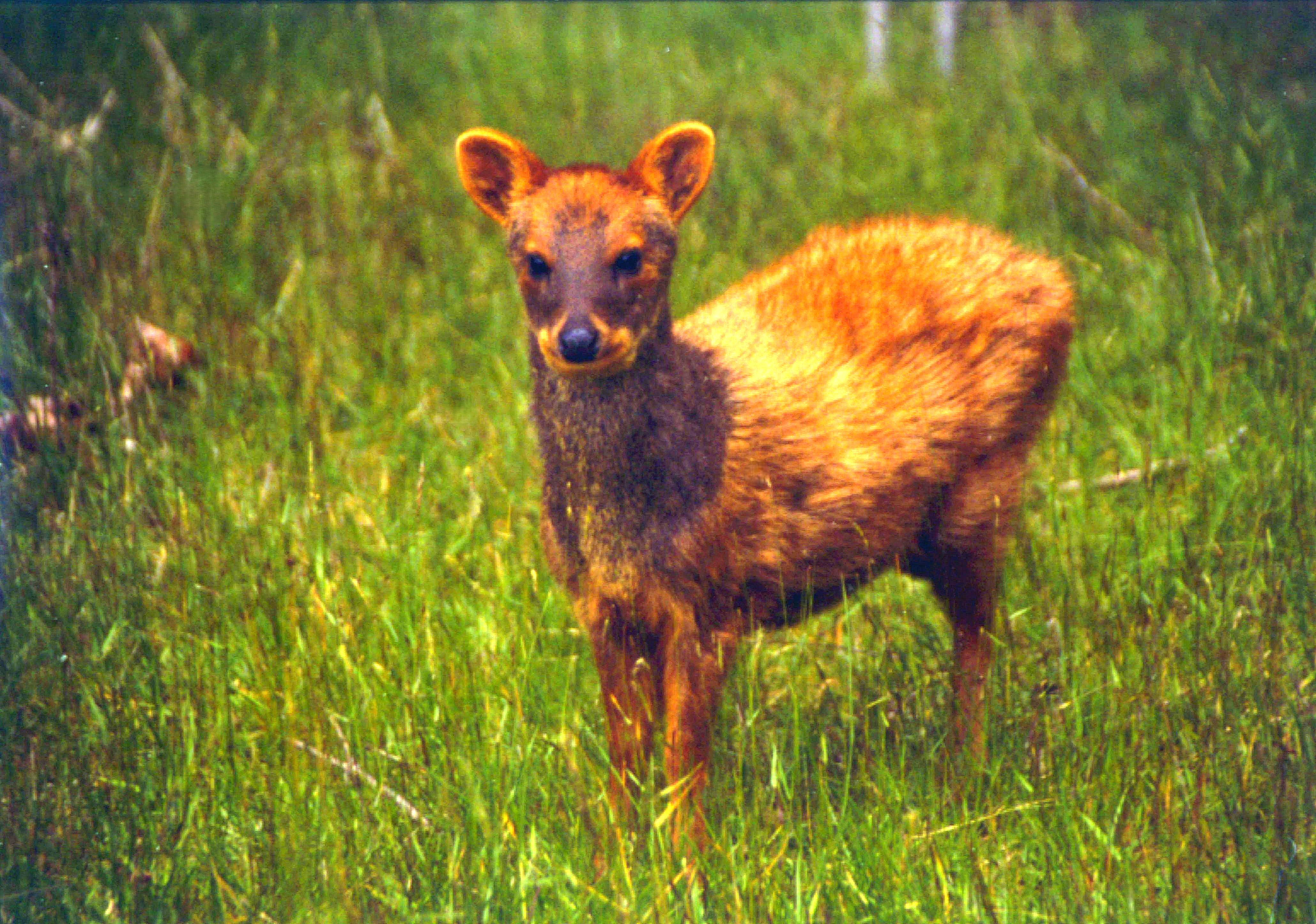 Female Pudú (Pudu puda), Los Lagos Region, Chile, November 2001